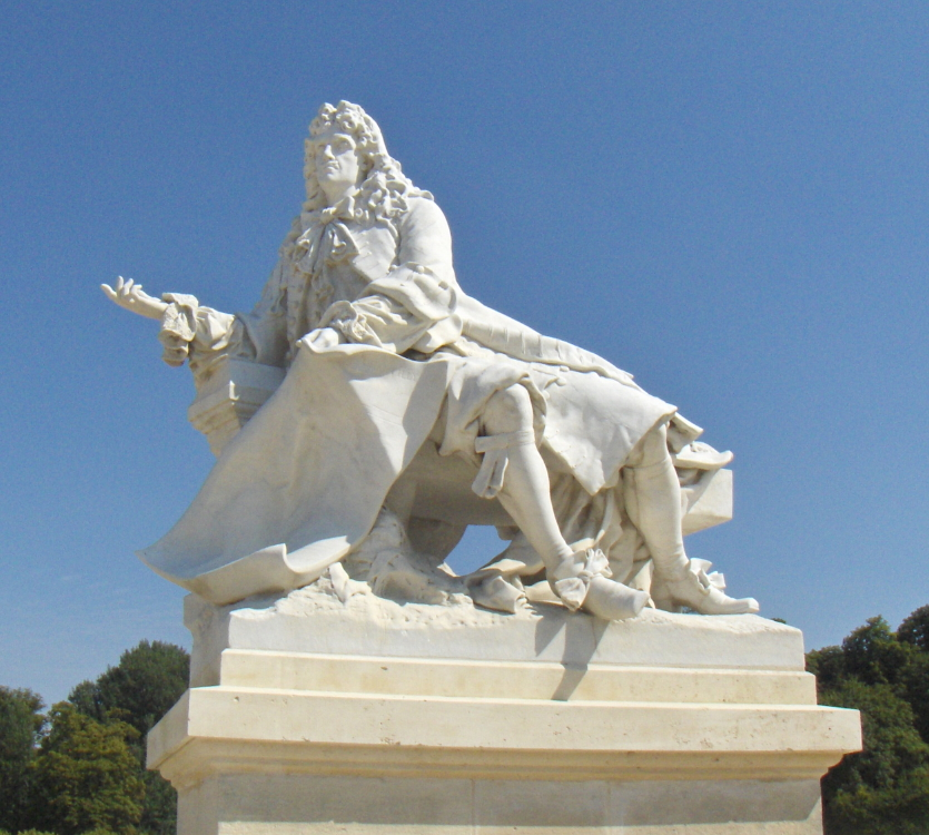 Statue of André Le Nôtre, by Tony Noël (1845-1909). Park of Château de Chantilly.